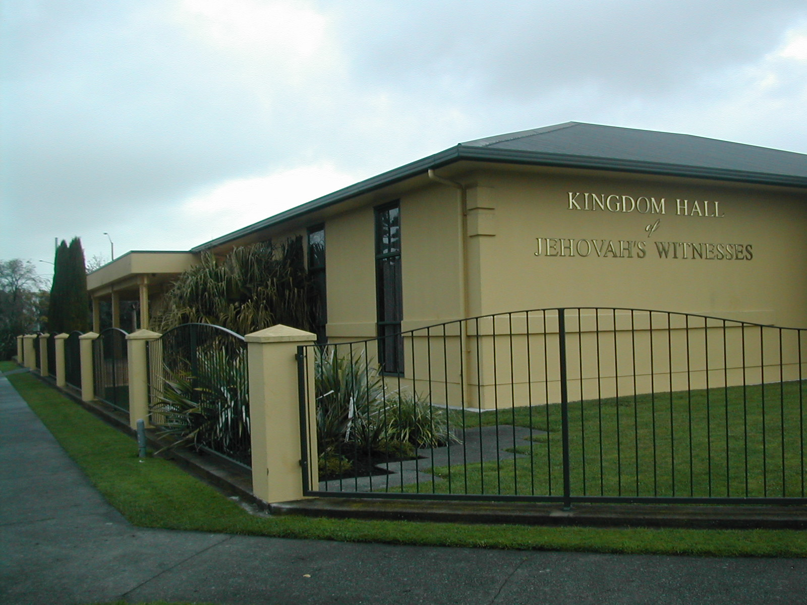 A photo of Kingdom Hall in Napier, New Zealand.